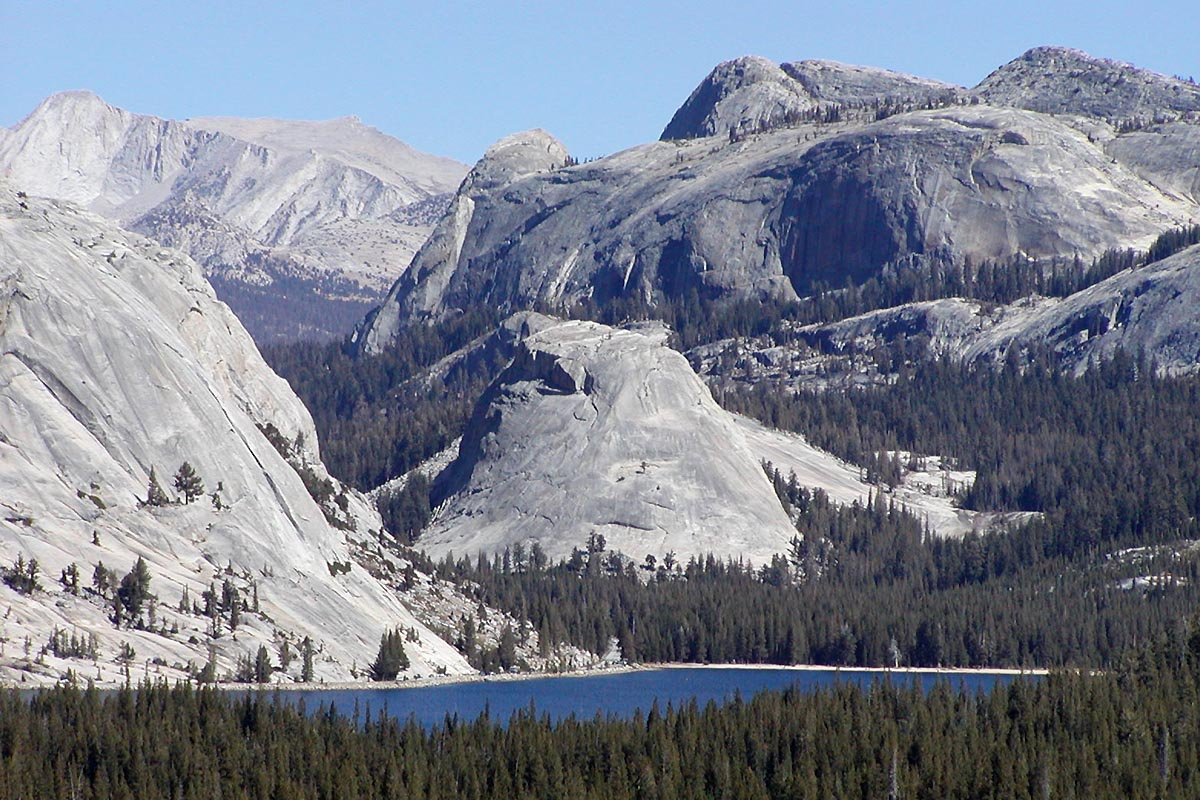 Photo of Tenaya Lake and Pywiack Dome